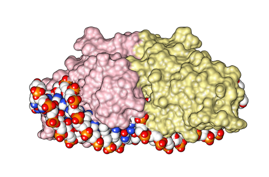 Dimer of the homing endonuclease I-CreI bound to DNA. I-CreI is showed in "surface style": each dimer either in pink or yellow. The atoms of DNA are showed in spheres, coloured by type of atom.